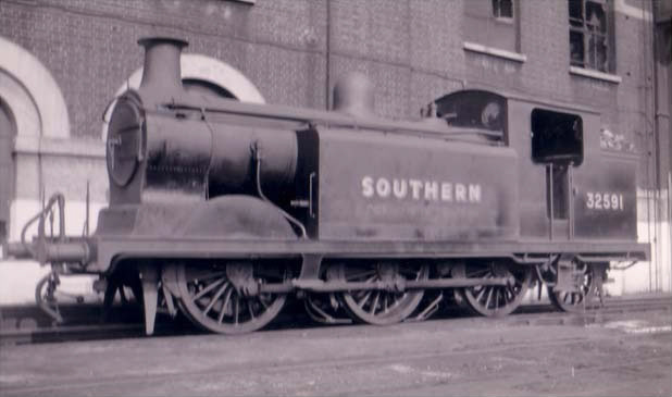 Southern Railway Steam Tank Engine No: 32591. Billinton designed LBSCR Class E5 0-6-2T built 1902-1904. Photographed at Brighton 1948.